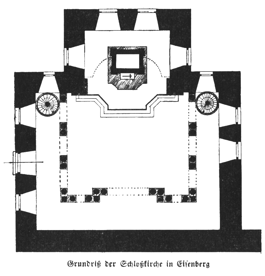 Map of the church in Eisenberg castle.